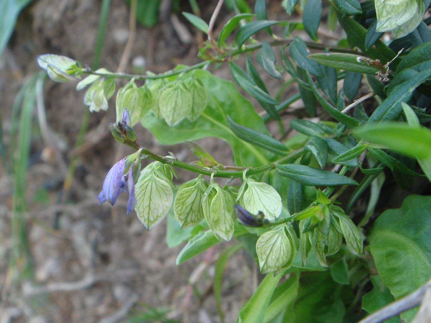 Bética milkwort, Spain, Ceuta.